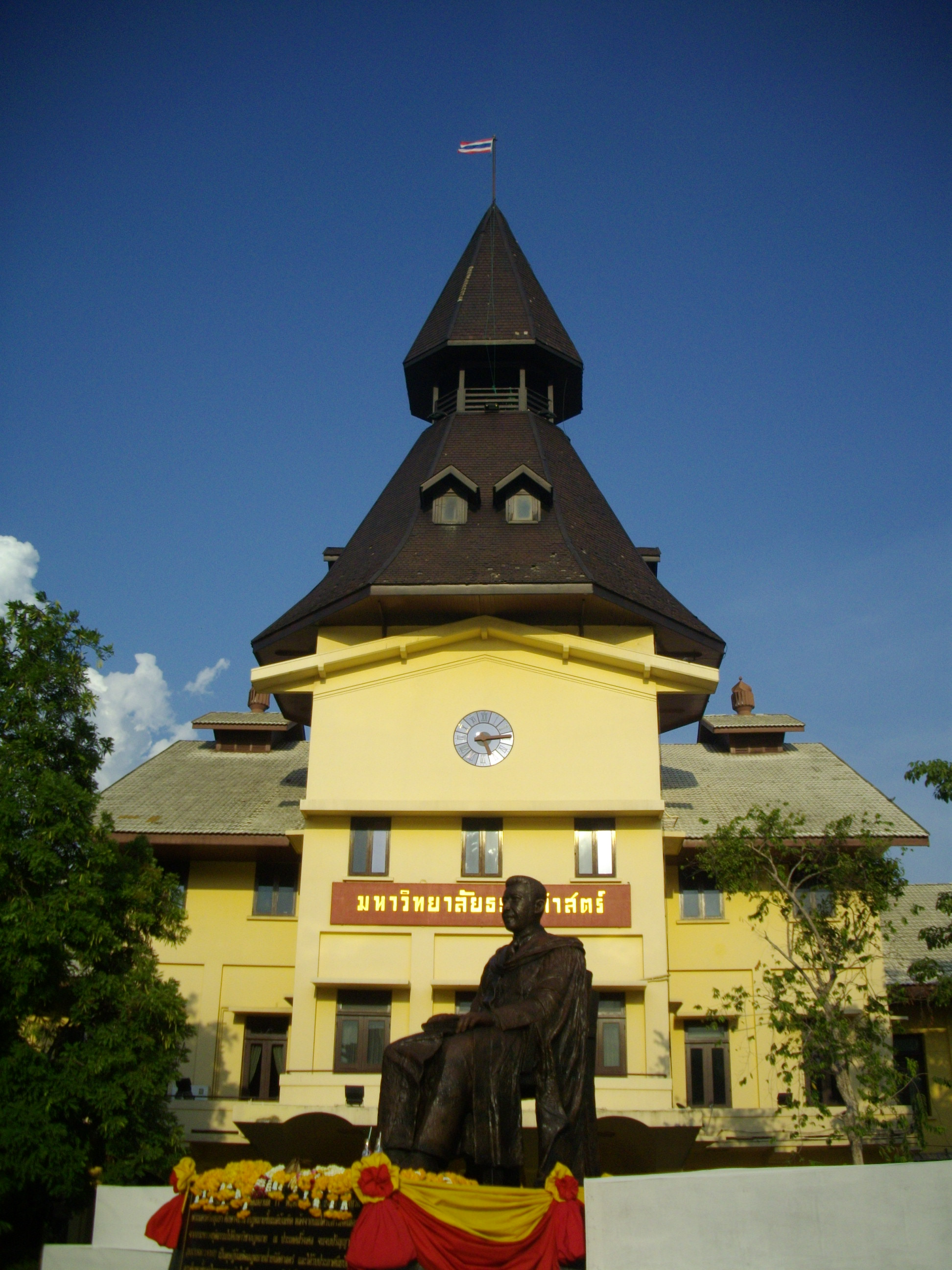 Monument of Pridi Phanomyong at Thammasat University, Bangkok, Thailand.